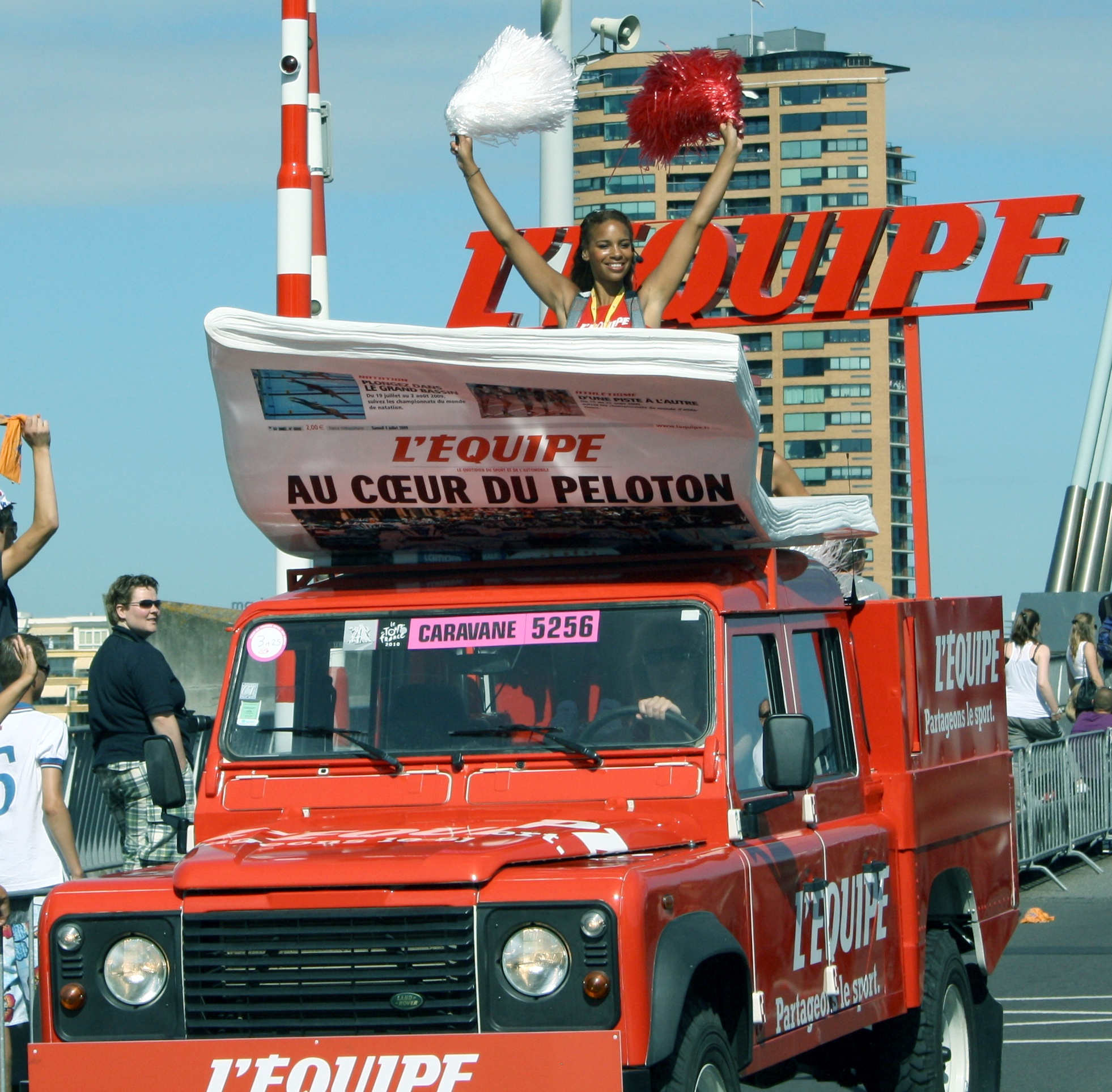 L'Équipe car at the start of the first stage of the 2010 Tour de France in Rotterdam